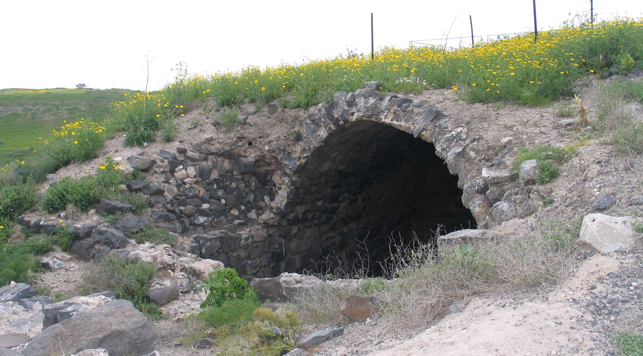 Vault at Tel Beyt Shean, Beyt Shean, Israel.